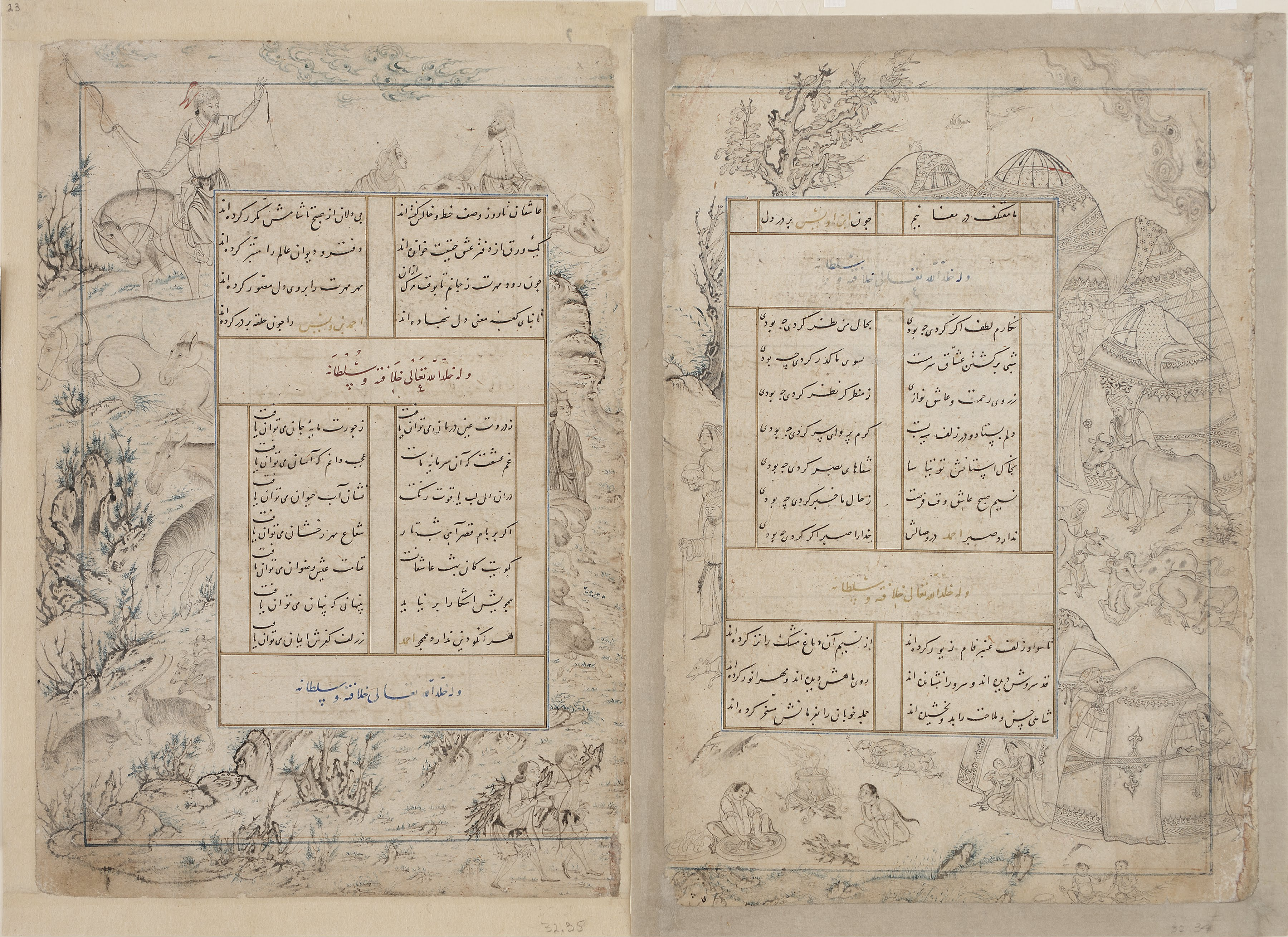 a page from Diwan Soltan Ahmad, Persian Painting by Junaid, Calligraphy by Mir Ali Tabrizi, Baghdad, 1405 ac